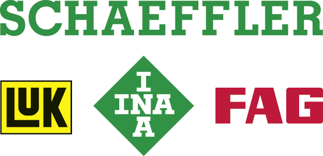 Logo of the Schaeffler Group.